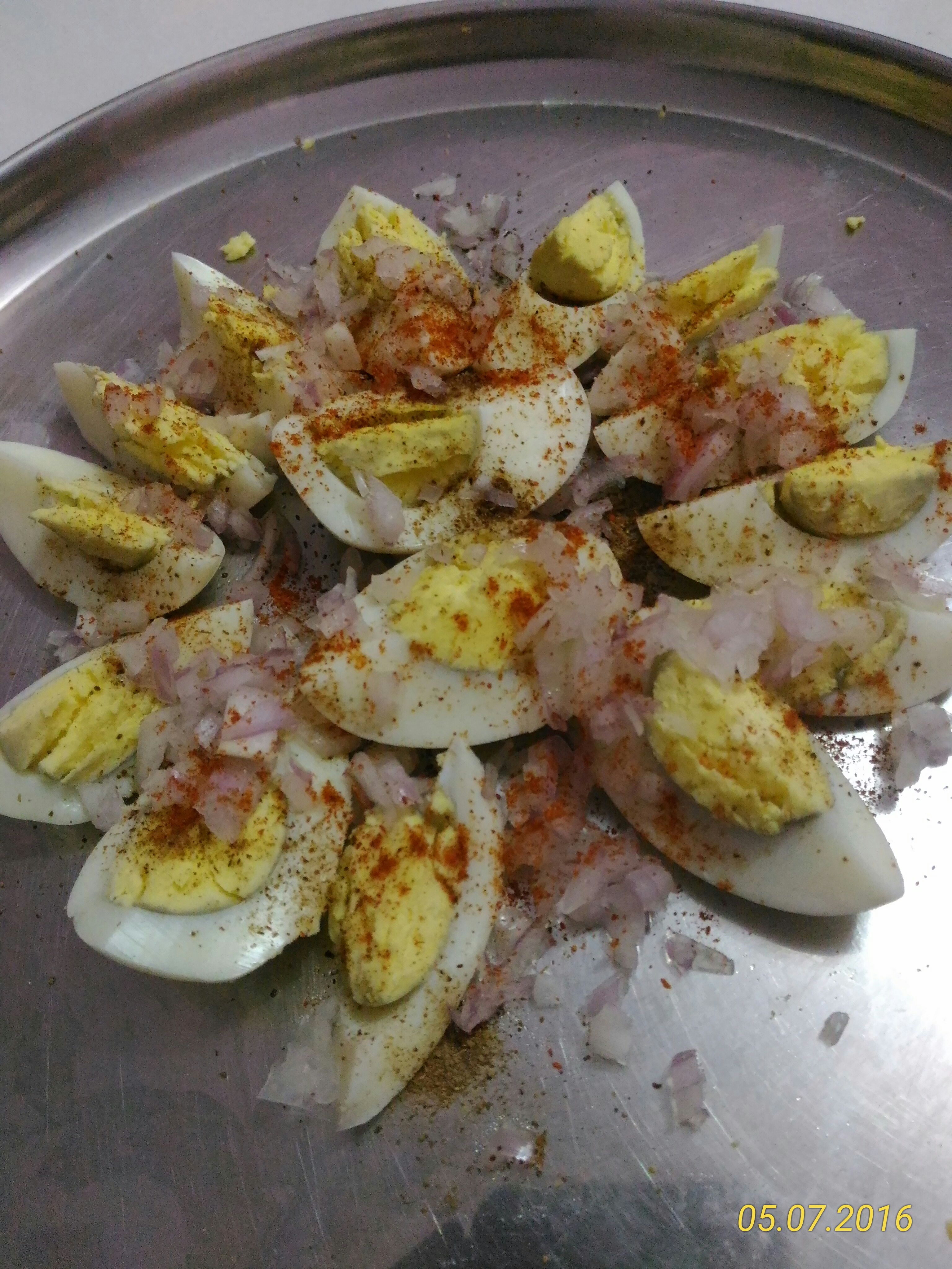 boiled eggs served with red chilly powder, salt and chopped coriander leaves and onions